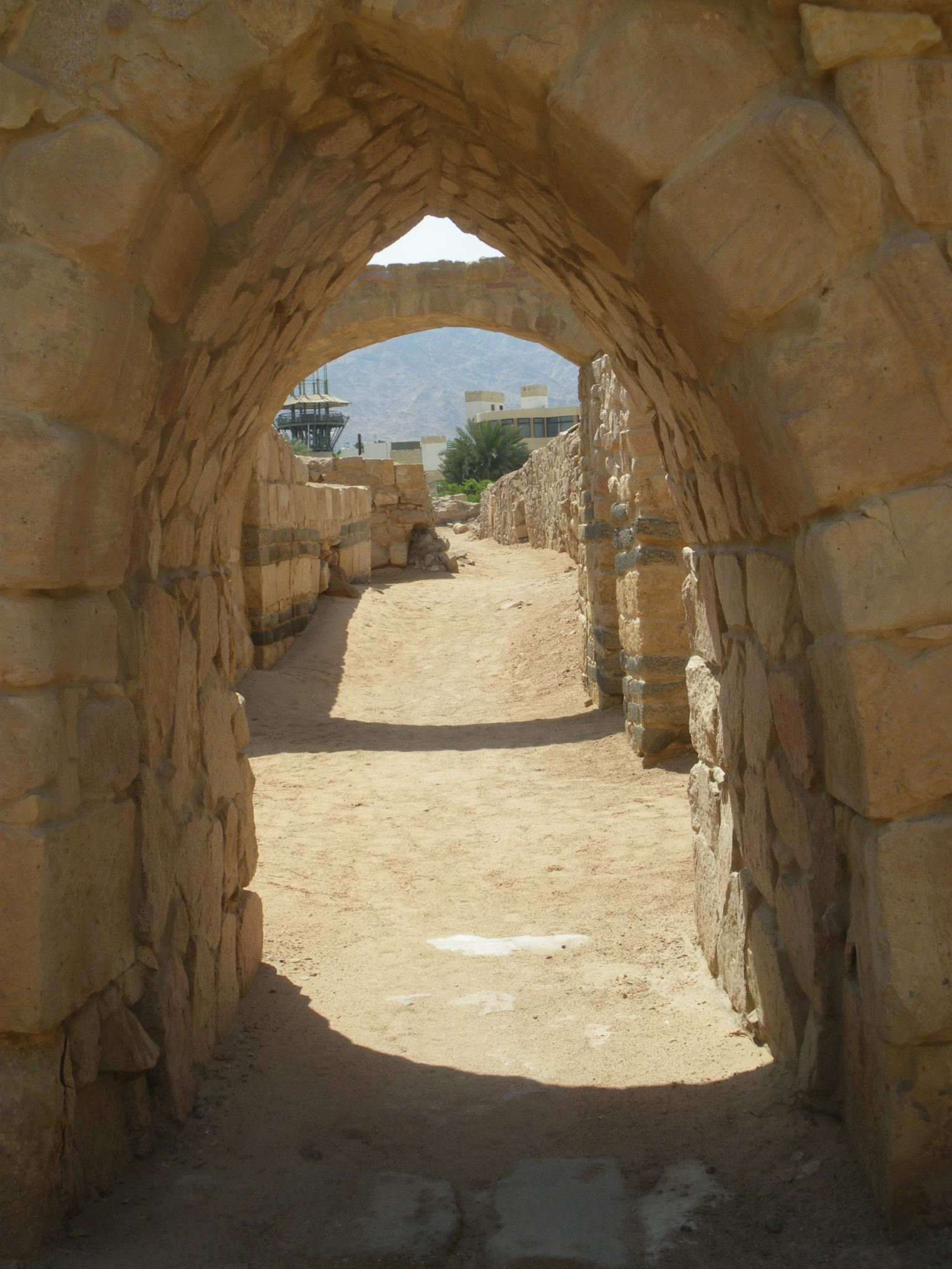 Ruins of Ayla in Aqaba, Jordan : the Egyptian Gate (Bab el Msir)